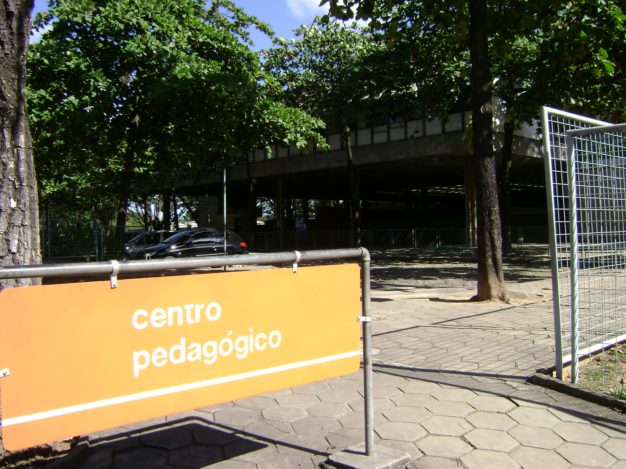 Entrance of Centro Pedagógico building, in Universidade Federal de Minas Gerais, in Belo Horizonte, Brazil.